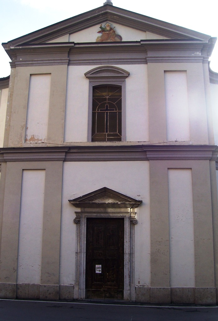 Church of St Alexander Martyr. Ono San Pietro, Val Camonica